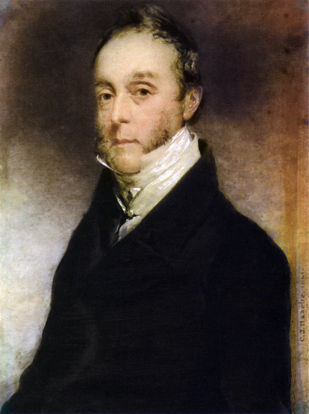 Miniature portrait painting of George Hay Dawkins-Pennant